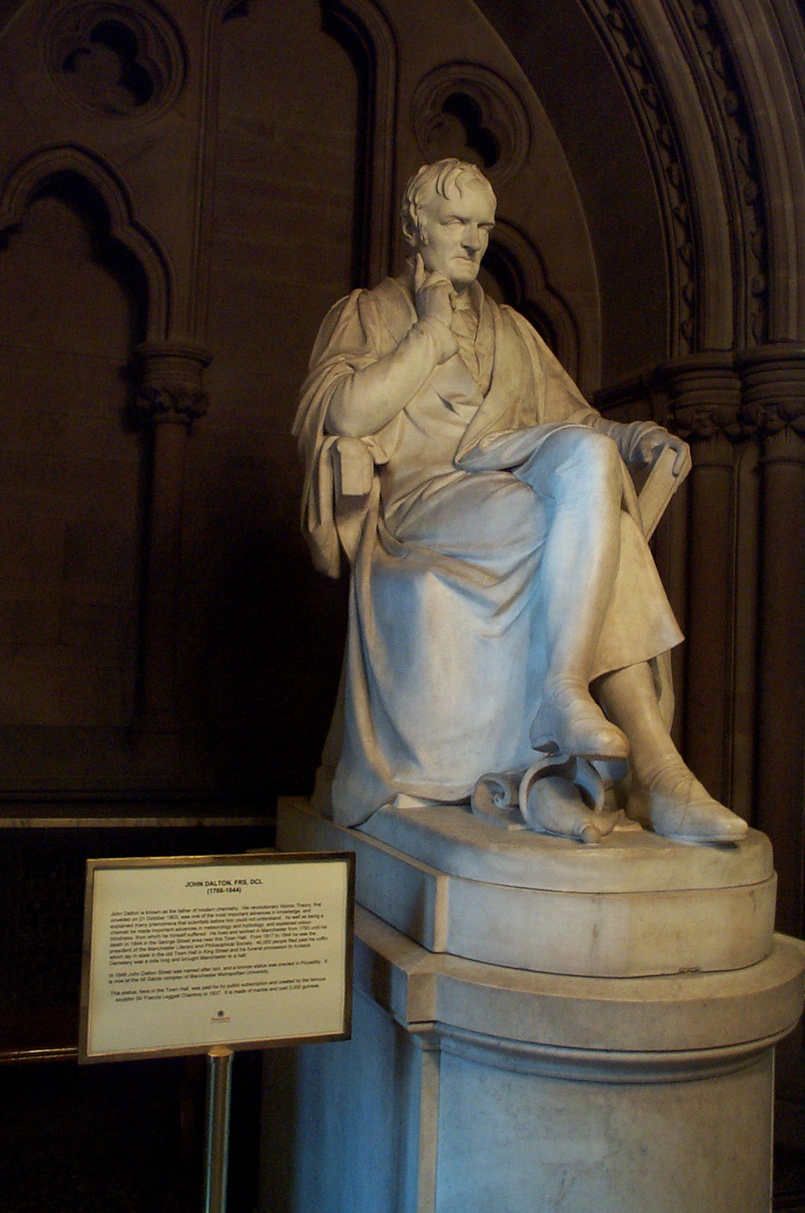 A statue of John Dalton in the Manchester Town Hall, 2005-10-20. Copyright © 2005 An 1837 work by Francis Leggatt Chantrey for the Manchester Institution. Record page.